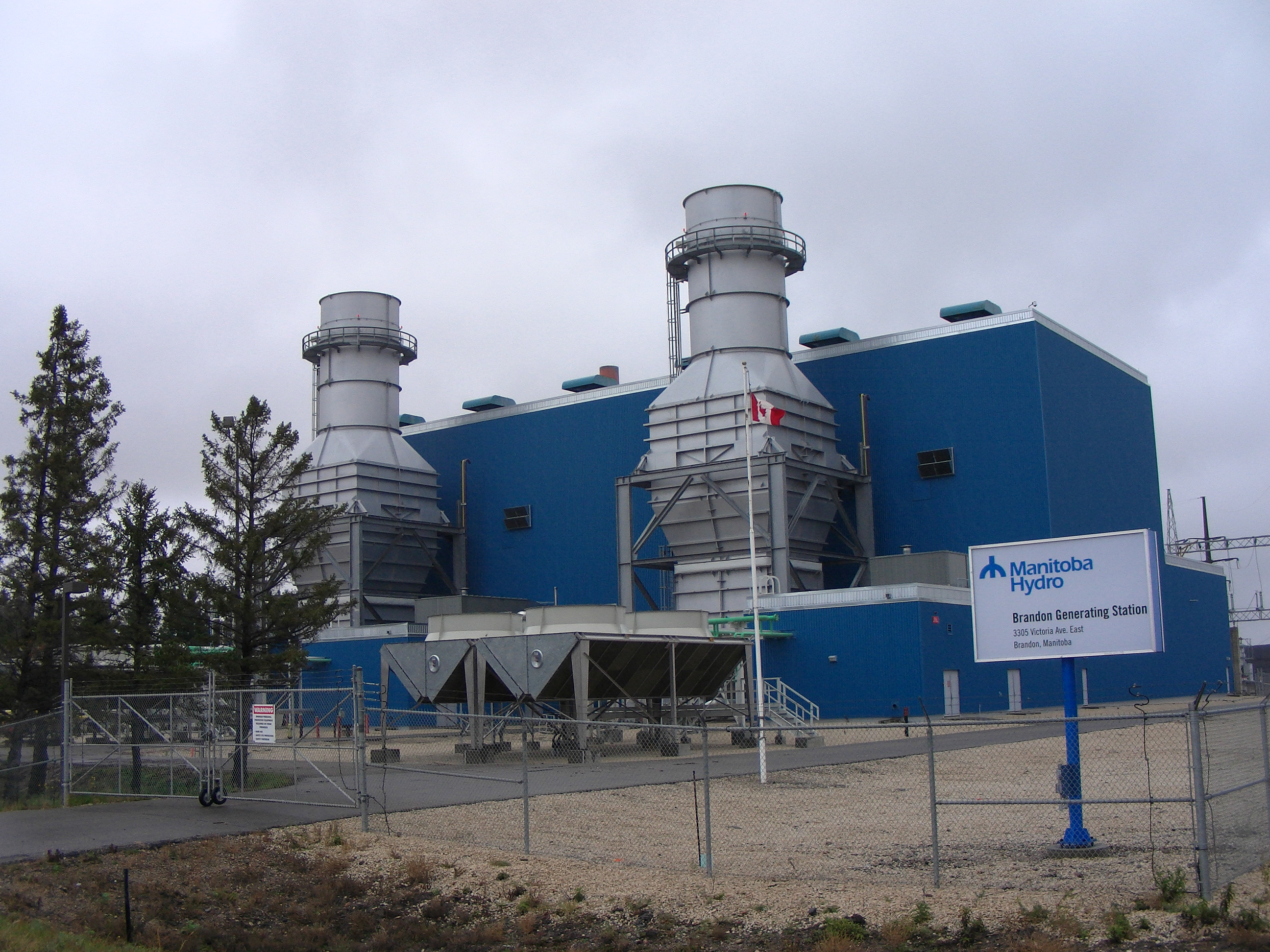 Manitoba Hydro Brandon Generating Station combustion turbine building , Brandon Manitoba taken October 13, 2008 Better picture welcome If you're in Brandon on a sunny day, please take a snapshot and replace this one. --Wtshymanski (talk) 03:28, 7 July 2010 (UTC)